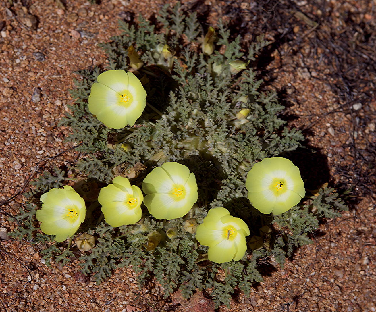 Grielum humifusum. A creeping perennial in the Namaqualand desert of northwestern South Africa. Sometimes placed in the Neuradoideae subfamily of the rose family Rosaceae; sometimes separated into a family of its own -- Neuradaceae. August 2009.